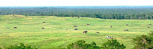 Camp Ripley National Guard tank range